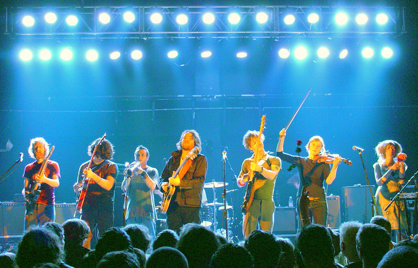 I am the author of this photograph. It was taken at a concert on 14 February 2006 at the Academy 2 in Manchester, England. There is a different, larger, version elsewhere on the internet, but this edited version is being licensed by me for use here under the GFDL. aLii 10:37, 28 April 2007 (UTC) In this photo (L to R): Brendan Canning, Ohad Benchetrit, Torquil Campbell, Kevin Drew, Andrew Whiteman, Julie Penner, Lisa Lobsinger